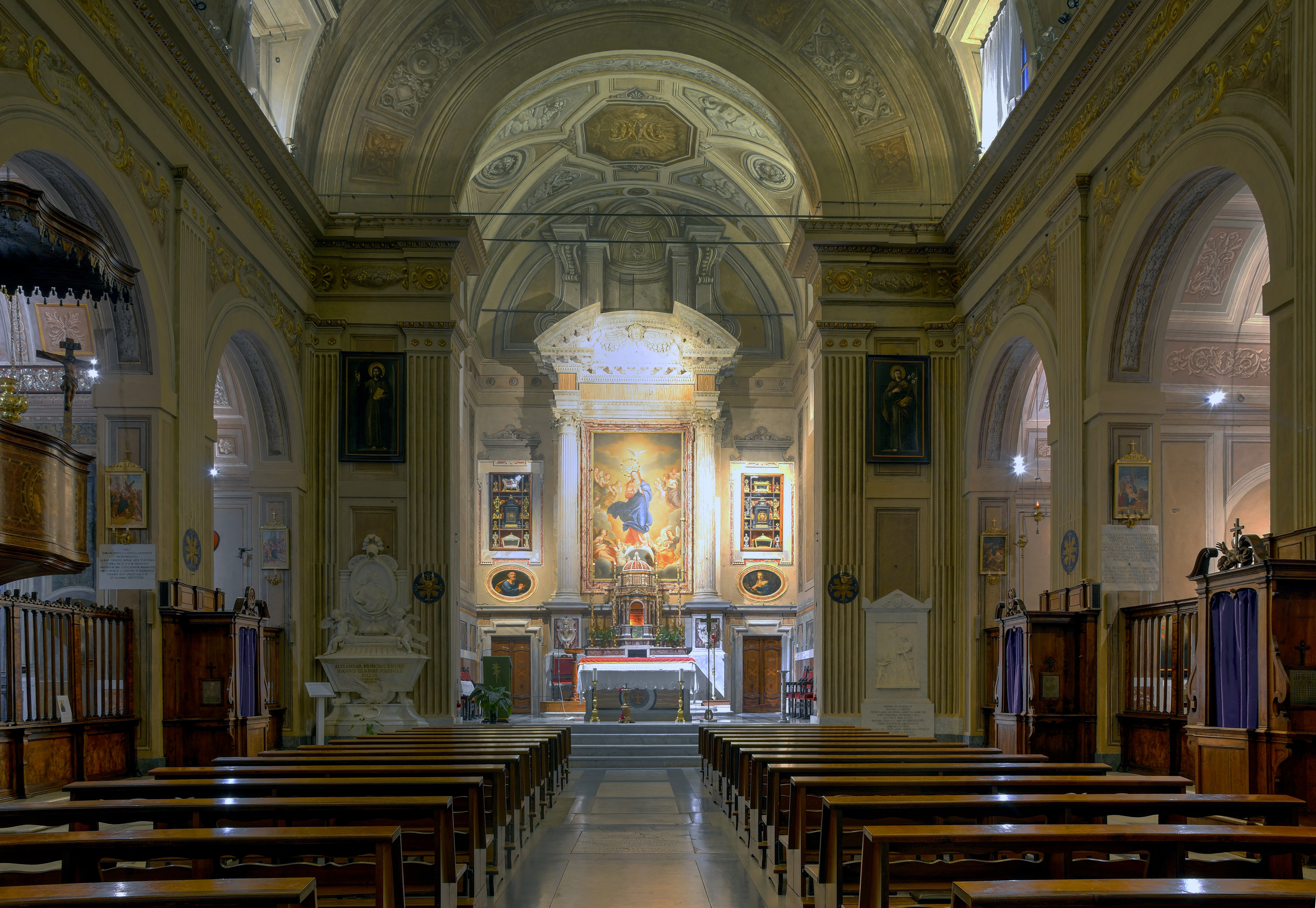 Our Lady of the Conception of the Capuchins